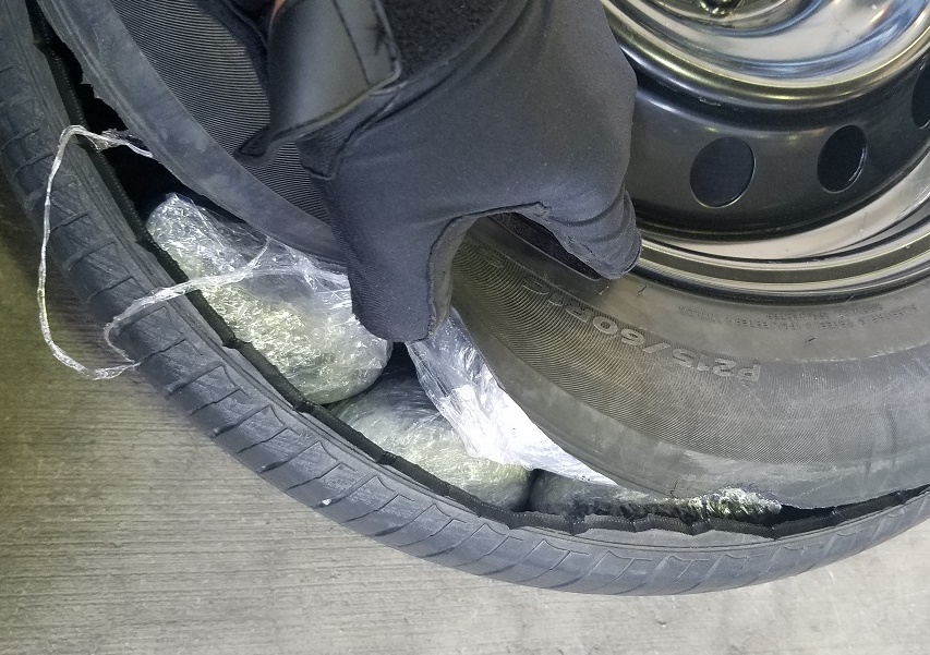 TUCSON, Ariz. - U.S. Customs and Border Protection, Office of Field Operations, officers at the Port of Nogales seized 46 pounds of cocaine and methamphetamine on Thursday. Officers at the Dennis DeConcini Crossing referred a 26-year-old Tucson man for further inspection of his Dodge sedan as he attempted to enter the U.S. from Mexico on Thursday morning. After a CBP narcotics detection canine alerted to the presence of a scent it was trained to detect, officers removed 10 packages of cocaine from within the vehicle’s rear quarter panels and rear bumper. The packages weighed more than 26 pounds, worth nearly $360,000. Earlier on the same day, officers at the DeConcini Crossing referred a 19-year-old Nogales, Arizona woman for an additional inspection of her Ford sedan when she attempted to enter the U.S. from Mexico. An alert by a CBP canine led officers to the car’s spare tire, where they removed nearly 20 packages of drugs from inside. The packages were determined to be nearly 18 pounds of meth, worth almost $16,000. That afternoon, officers at the Morley Pedestrian Gate referred a 20-year-old man from La Puente, California for further questioning, following a positive alert by a CBP canine. When he was searched, officers removed two packages of meth that were taped to the subject’s thighs. The drugs weighed nearly 2 pounds and have an estimated value of almost $1,800. Officers seized the vehicles and drugs, while the subjects were arrested and then turned over to U.S. Immigration and Customs Enforcement’s Homeland Security Investigations. Individuals arrested may be charged by complaint, the method by which a person is charged with criminal activity, which raises no inference of guilt. An individual is presumed innocent unless and until competent evidence is presented to a jury that establishes guilt beyond a reasonable doubt. Photo provided by: U.S. Customs and Border Protection